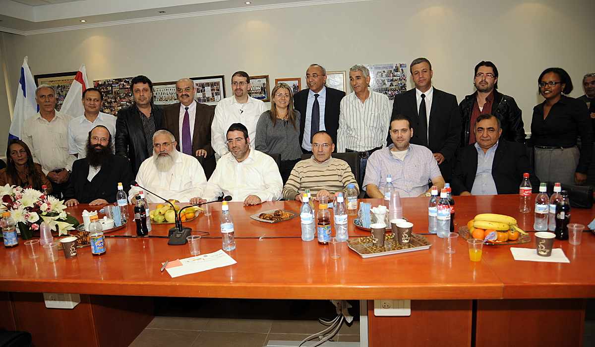 U.S. Ambassador Daniel Shapiro on his first official visit to Kiryat Gat, met with the mayor, Aviram Dahari, and the 17 council members, who presented him with the key to the city in a short ceremony. A 7-piece elementary school string band representing Kiryat Gat's diverse population played Hanukkah tunes at ceremony. The Ambassador was also introduced to Ethiopian elementary school students who attend Moadon Ivzan, a community center in Kiryat Gat run by Mr. Yaakov Uzan. This was followed by a visit to Fidel youth club (Fidel is Amharic for alphabet), accompanied by the mayor and deputy mayor, where he met with staff and students, and saw an exhibition of Ethiopian arts and crafts organized by the NGO Ehete (Amharic for "My Sisters").